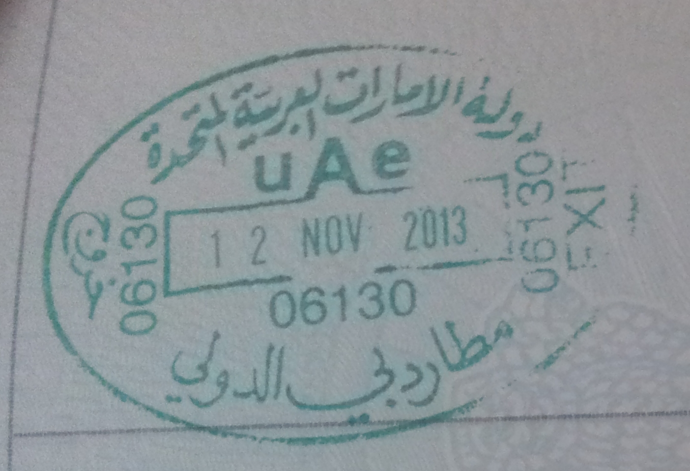 Passport exit stamp at Dubai airport